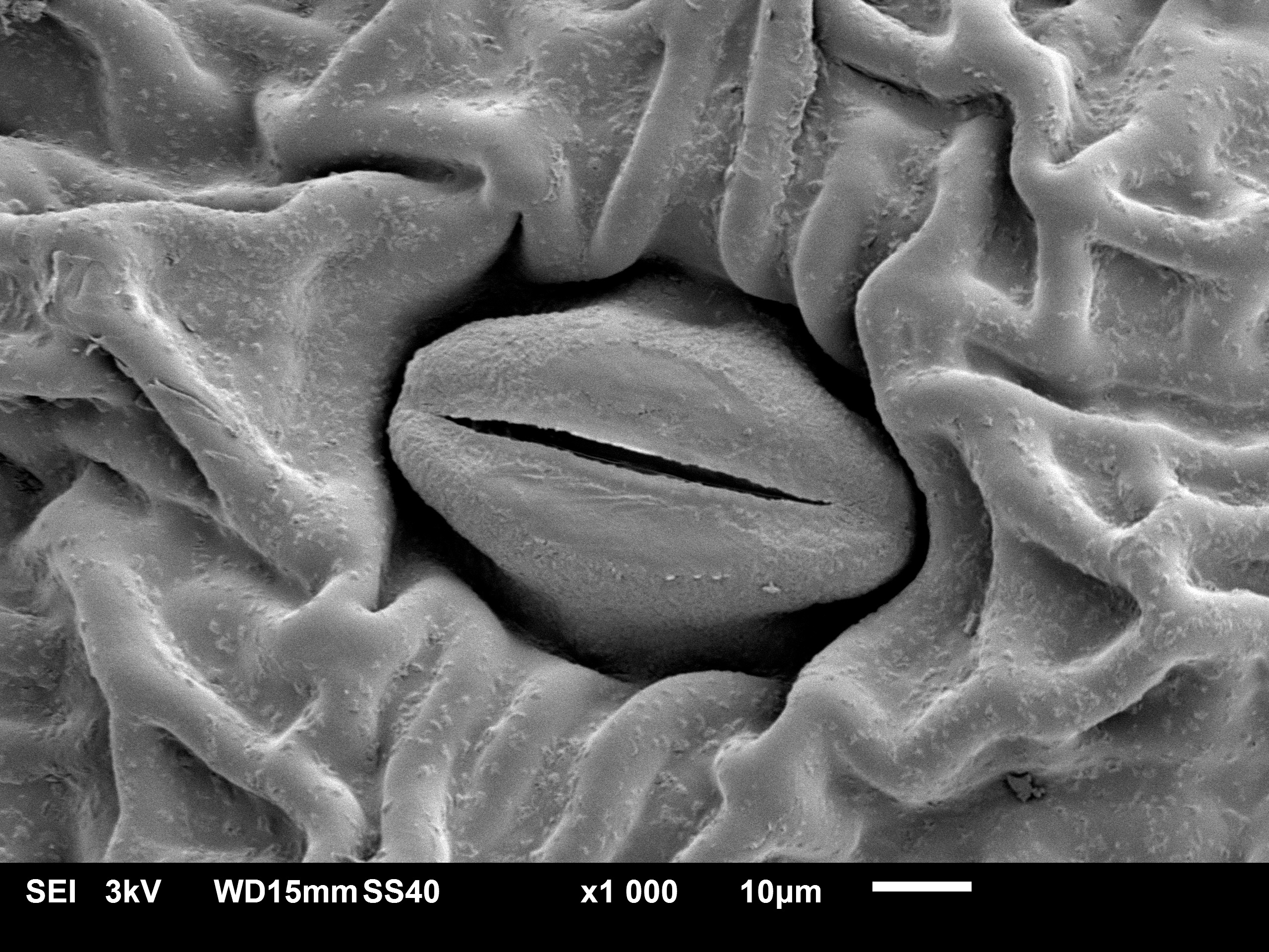 Scanning electron microscopy image of stoma, a pore that was found in the epidermis on the bottom of the leaf of Haemanthus albiflos.